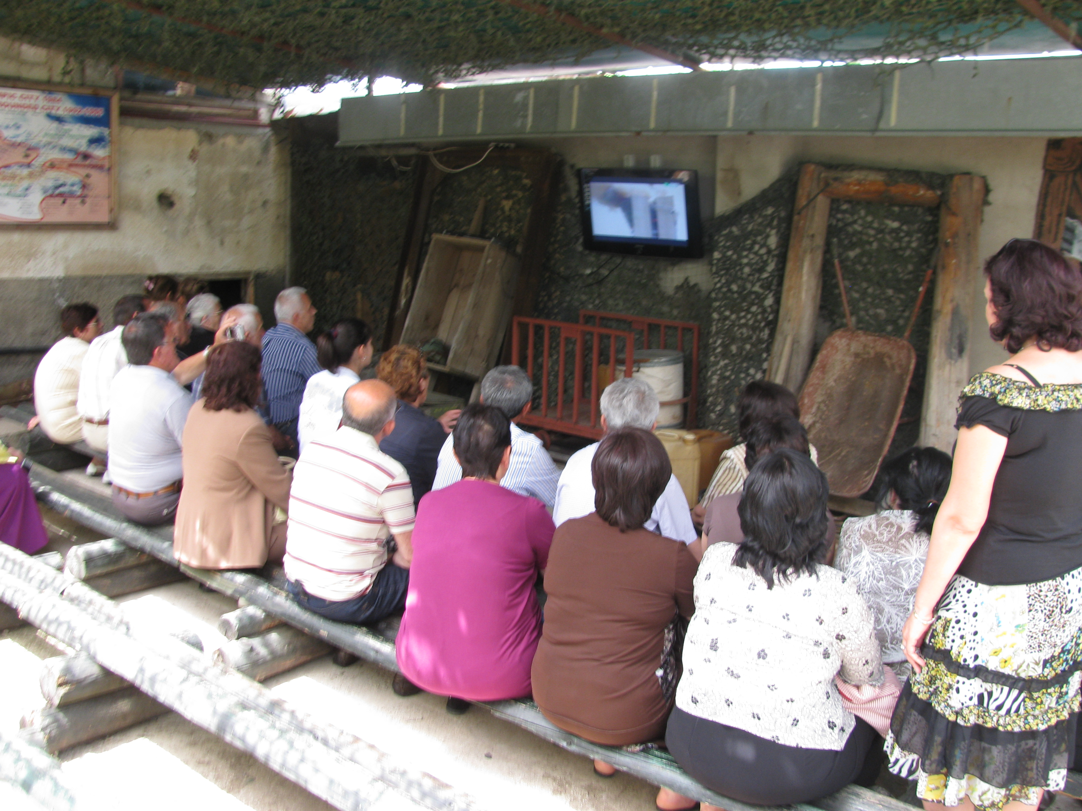 Sarajevo Tunnel Museum visitors watch educational videos